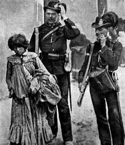 Dánosi rablógyilkosság korona tanúját csendőrök kisérik Vasárnapi Ujság 54. (1907)